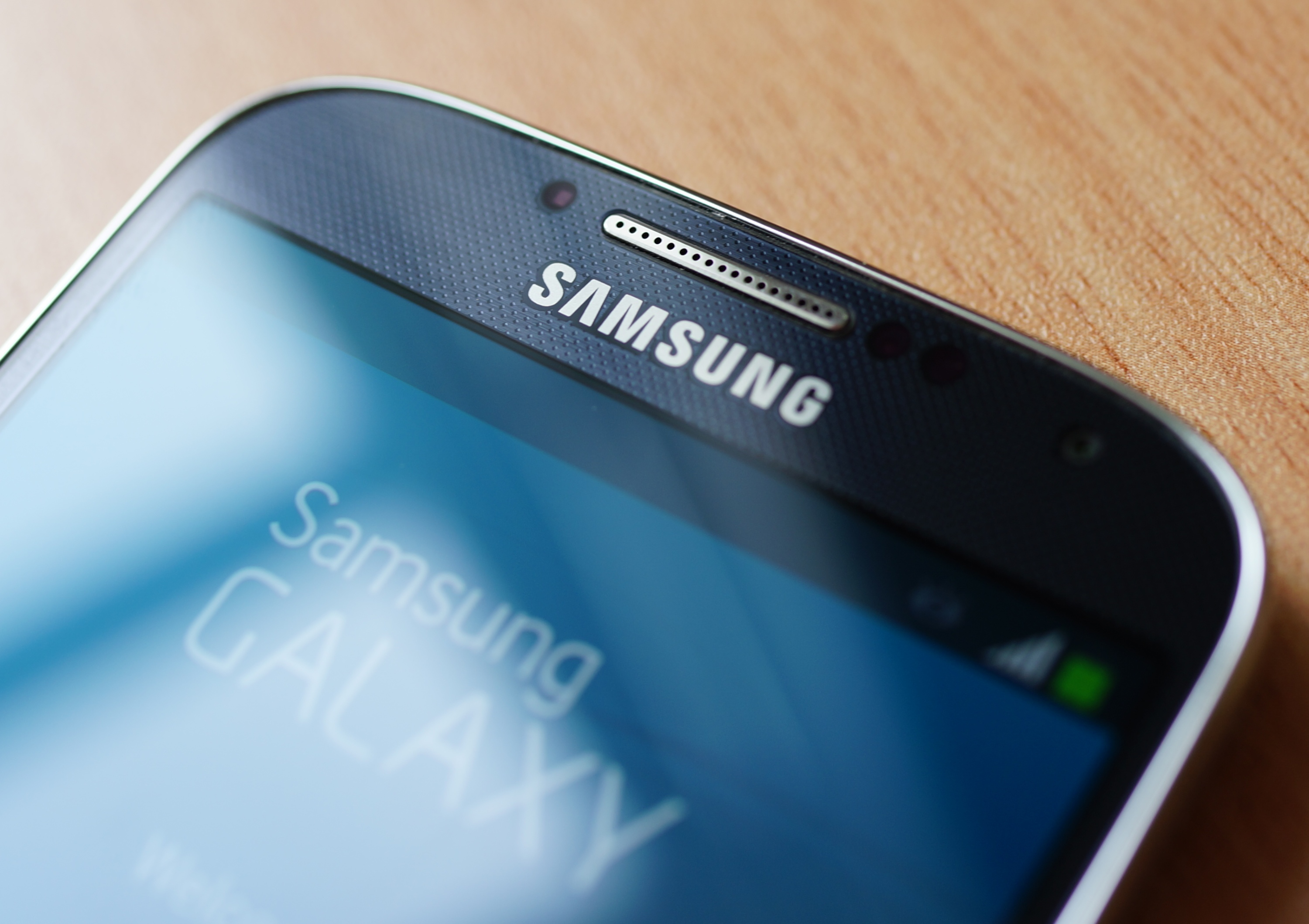 A close-up of the top half of a Samsung Galaxy S4.